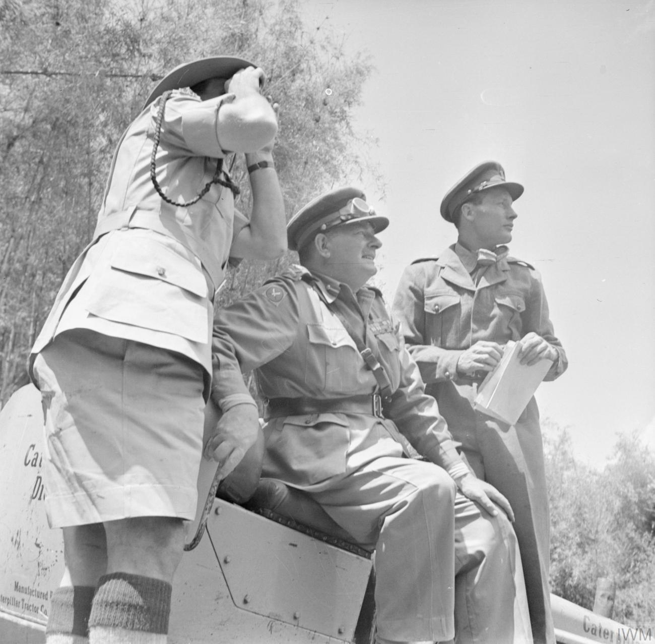 Lieutenant General Sir George Erskine, Commander-in-Chief, East Africa (centre), observing operations against the Mau Mau. In May 1953, General Erskine was given control of all military units plus police and auxiliary troops